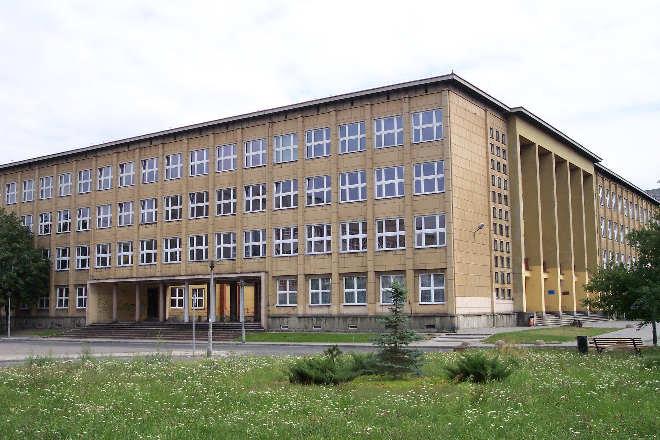 Silesian University of Technology - Faculty of Civil Engineering